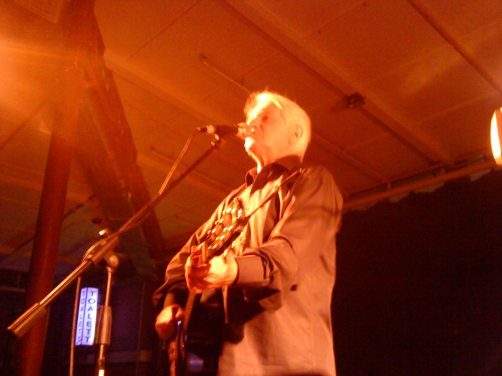 Kemal Monteno in Malmö, Sweden